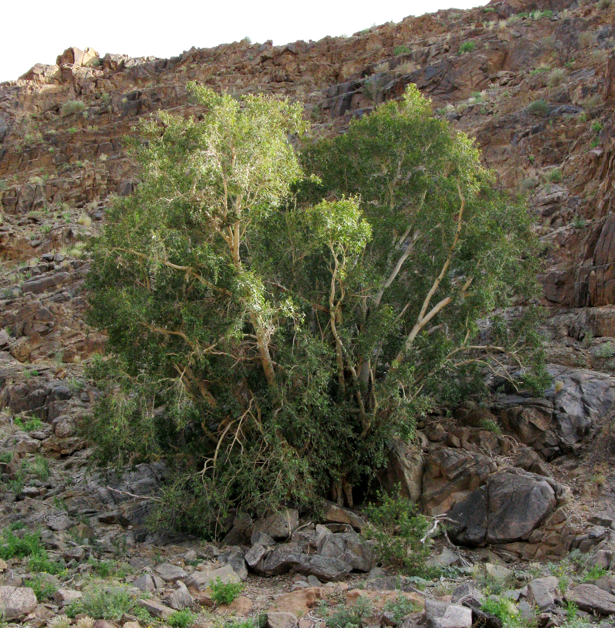 Namaqua fig growing on scree along canyon wall in Fish River Canyon, Namibia